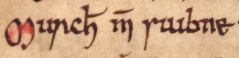 An excerpt from folio 68v of Oxford Bodleian Library Rawlinson B 489 (the Annals of Ulster). The excerpt concerns Murchadh Mac Suibhne.